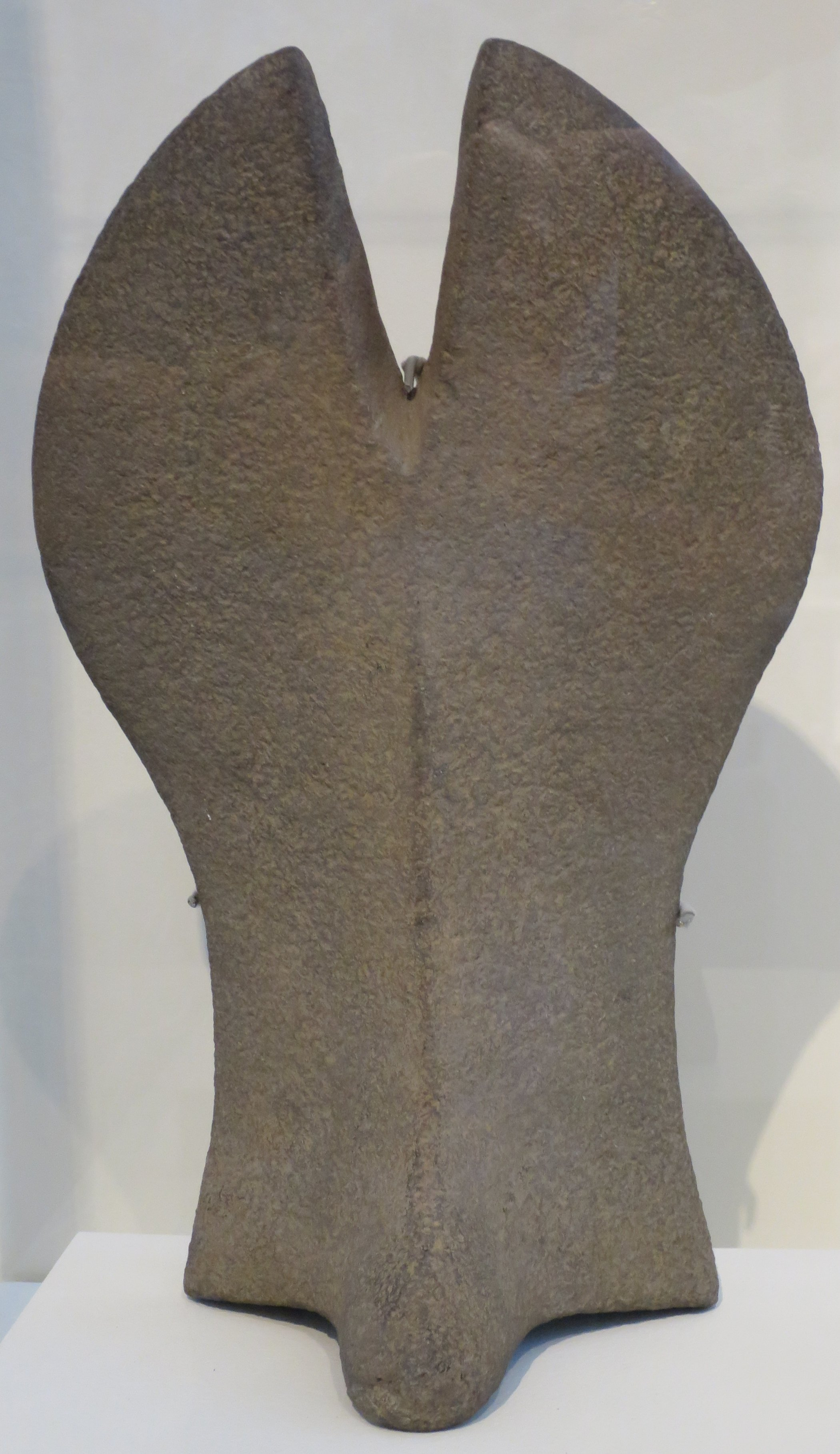 Palma, Maya culture, Guatemala, c. 6th-9th century, carved volcanic stone, Honolulu Museum of Art, accession 2032.1